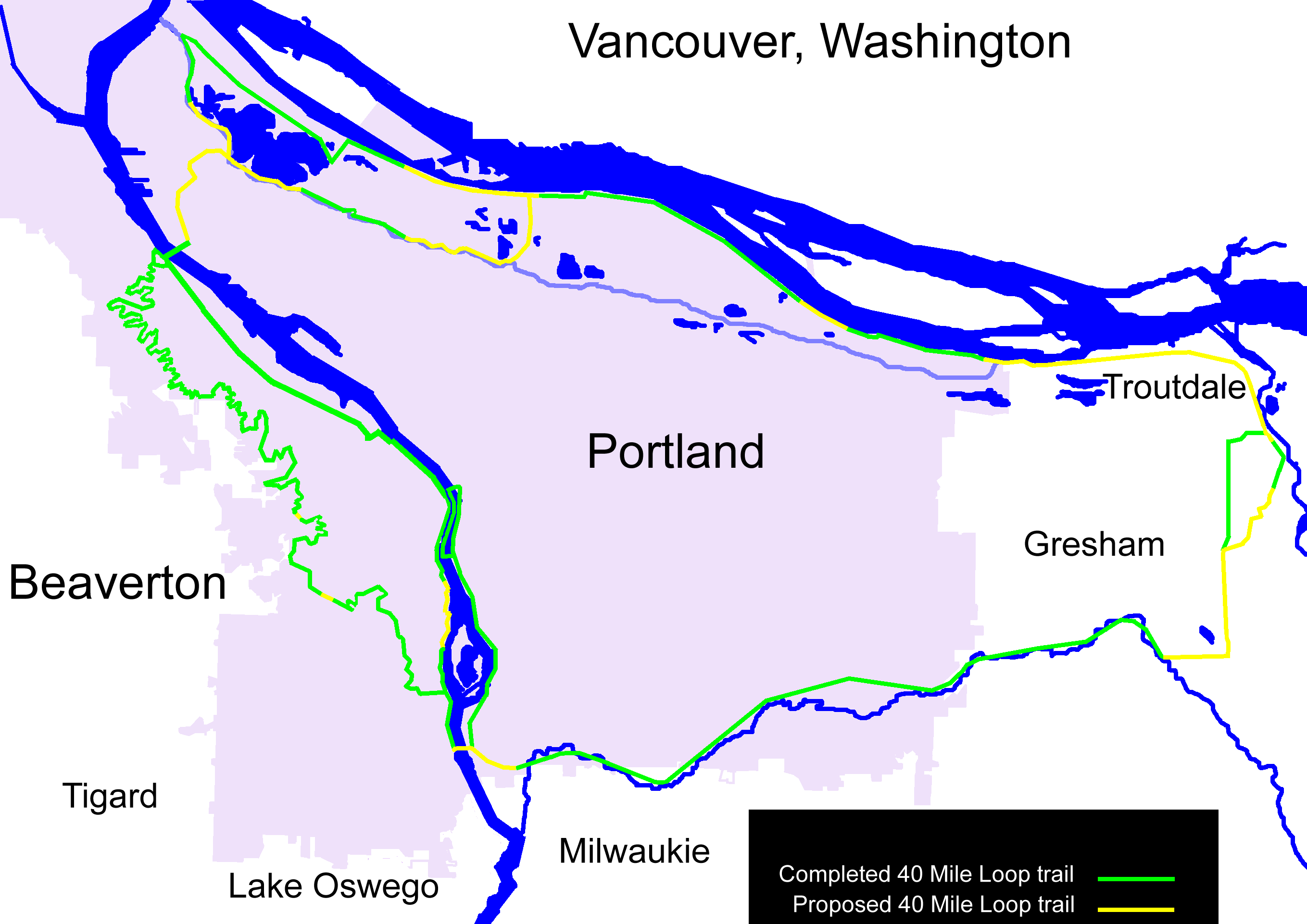 Map of the 40 Mile Loop greenway around Portland, Oregon, a 140 mile path connecting city parks. The green portions are complete; the yellow portions are proposed. Created based on Portland City Limits and Urban Service Boundary and 40 Mile Loop Land Trust map.